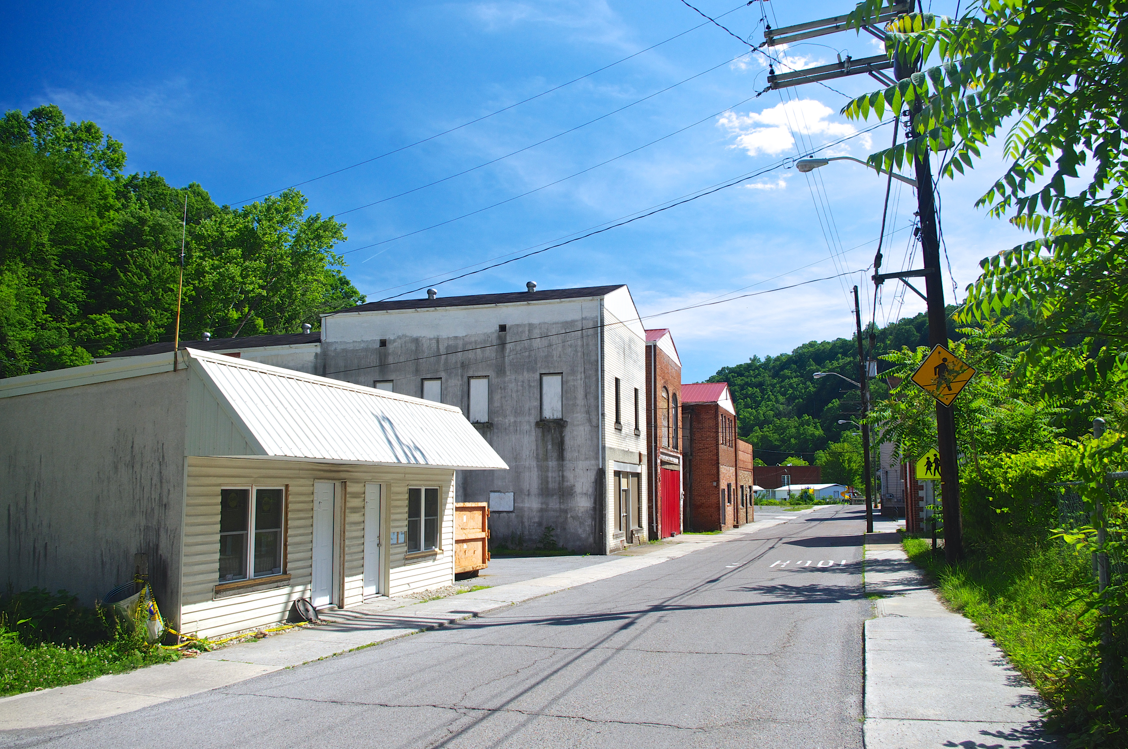 Buildings along Highway 636 in St. Charles, Virginia, United States.